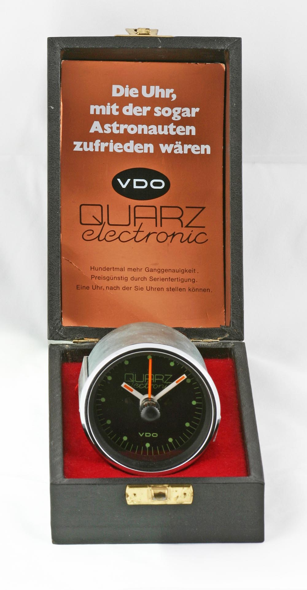 Quartzclock for cars Q4, VDO, Frankfurt am Main, 1969 The world's first quartz clock for cars, only 1000 copies made. (Deutsches Uhrenmuseum, Inv. 2007-071)